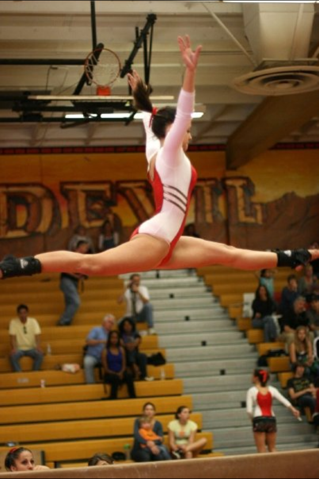 Image of a former varsity Mt. Carmel High School gymnast competing on the balance beam in Sundevil Arena.